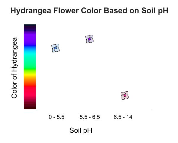 Hydrangea flower color changes based on the pH in soil. As the graph depicts, soil with a pH of 5.5 or lower will sprout blue hydrangeas, a ph of 6.5 or higher will produce pink hydrangeas, and soil in between 5.5 and 6.5 will have purple hydrangeas. White hydrangeas can not be manipulated by soil pH, they will always be white because they do not contain pigment for color.